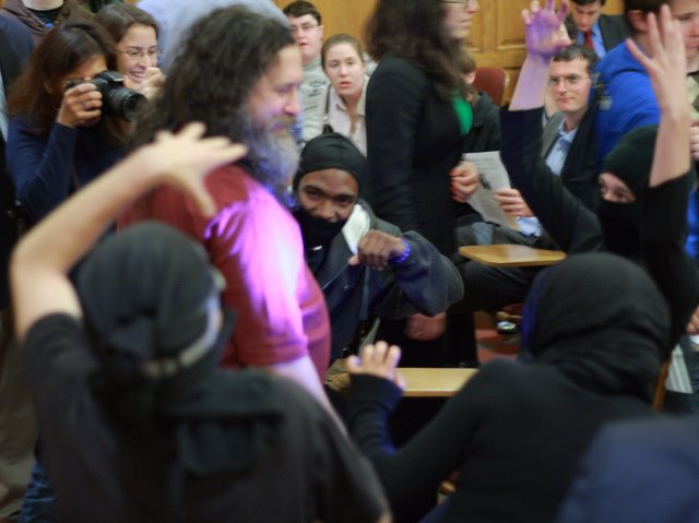 Richard Stallman surrounded by "ninjas" re-enacting an xkcd comic, before Stallman debated the issue of DRM at a meeting of the Yale Political Union.